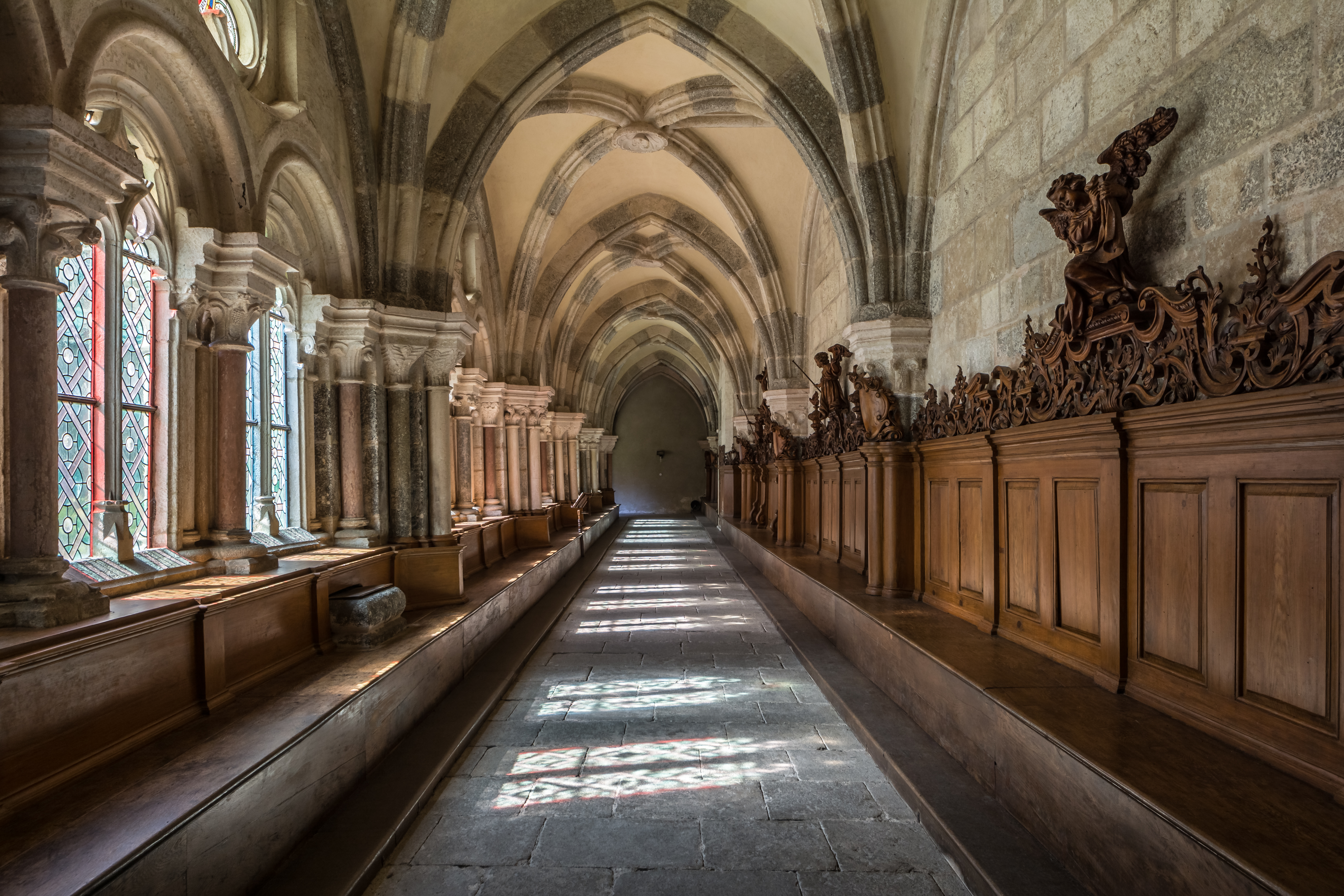 North wing of the cloister at Zwettl Abbey, Lower Austria